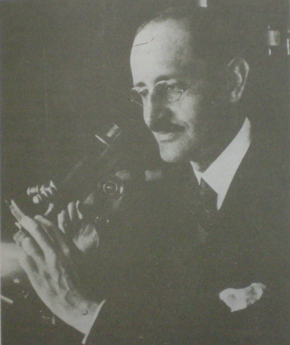 Pío del Río Hortega, Spanish scientist.